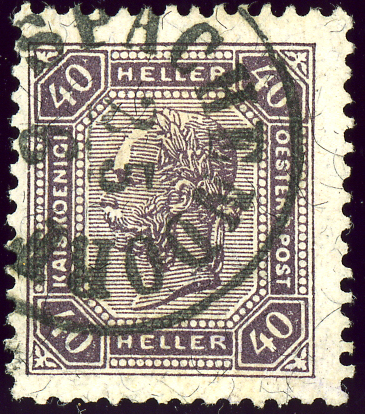 Austrian KK 40 heller stamp, 1904 issue, cancelled at SPACHENDORF (now Leskovec nad Moravicí), Silesia, Czech R.